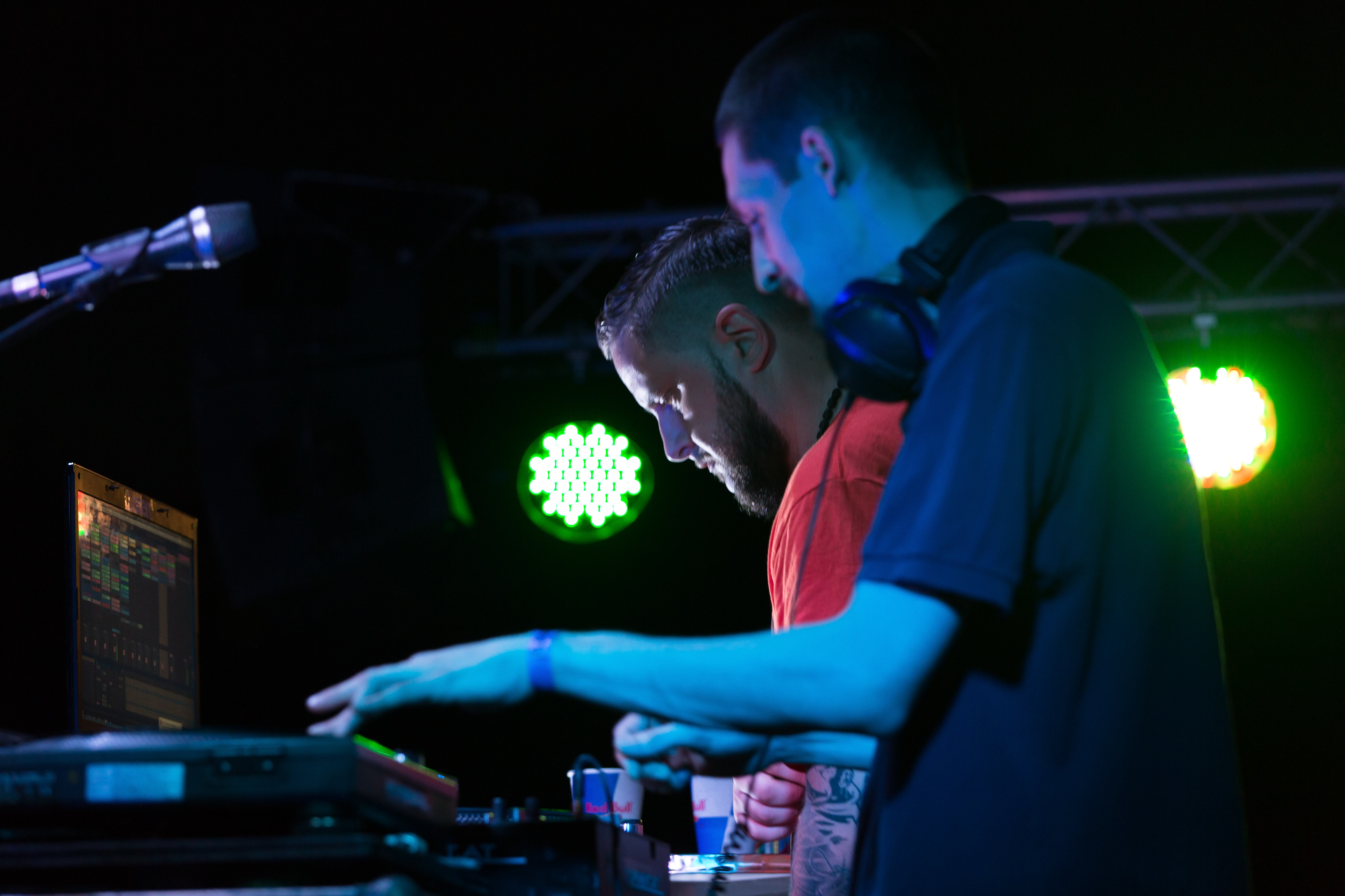 Popfest 2015: Brenk Sinatra (l.) and Fid Mella; Karlsplatz in Vienna, Austria.